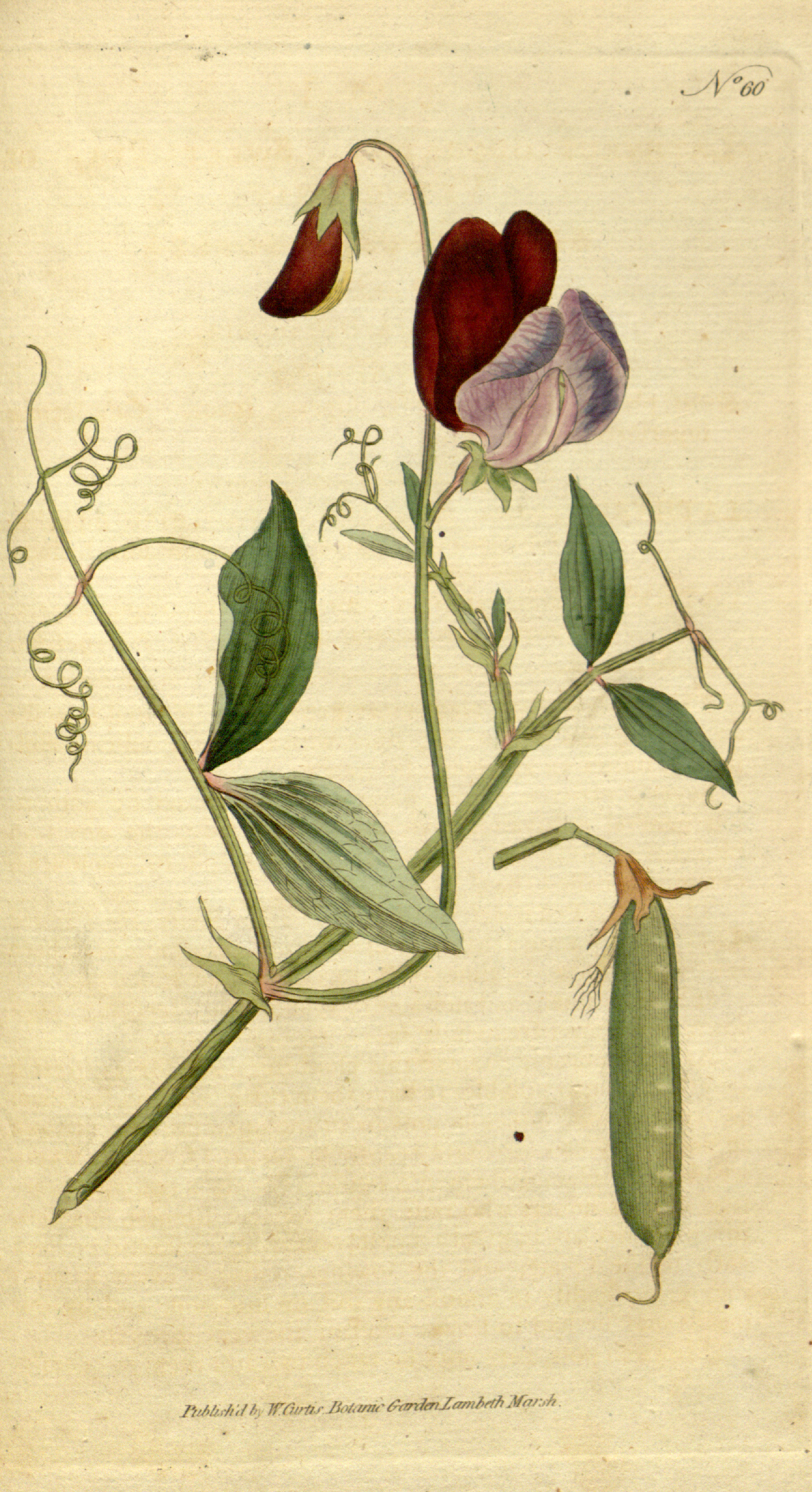 This is a plate from The Botanical Magazine, Volume 2.